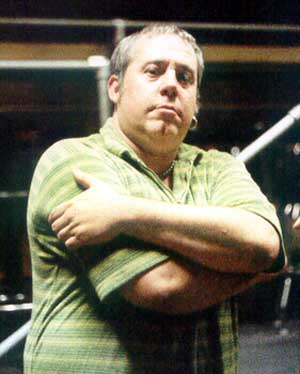 Robert Buck posing for the camera, September 29, 1997, Cleveland, OH.